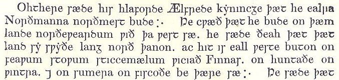 Beginning of Ohthere's account, in King Alfred's "Orosius".